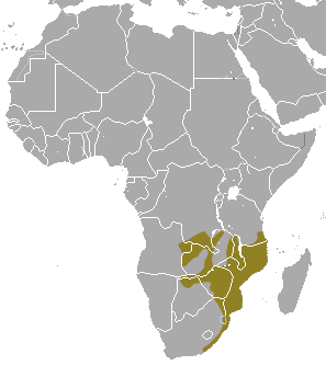 Peters's Epauletted Fruit Bat (Epomophorus crypturus) range